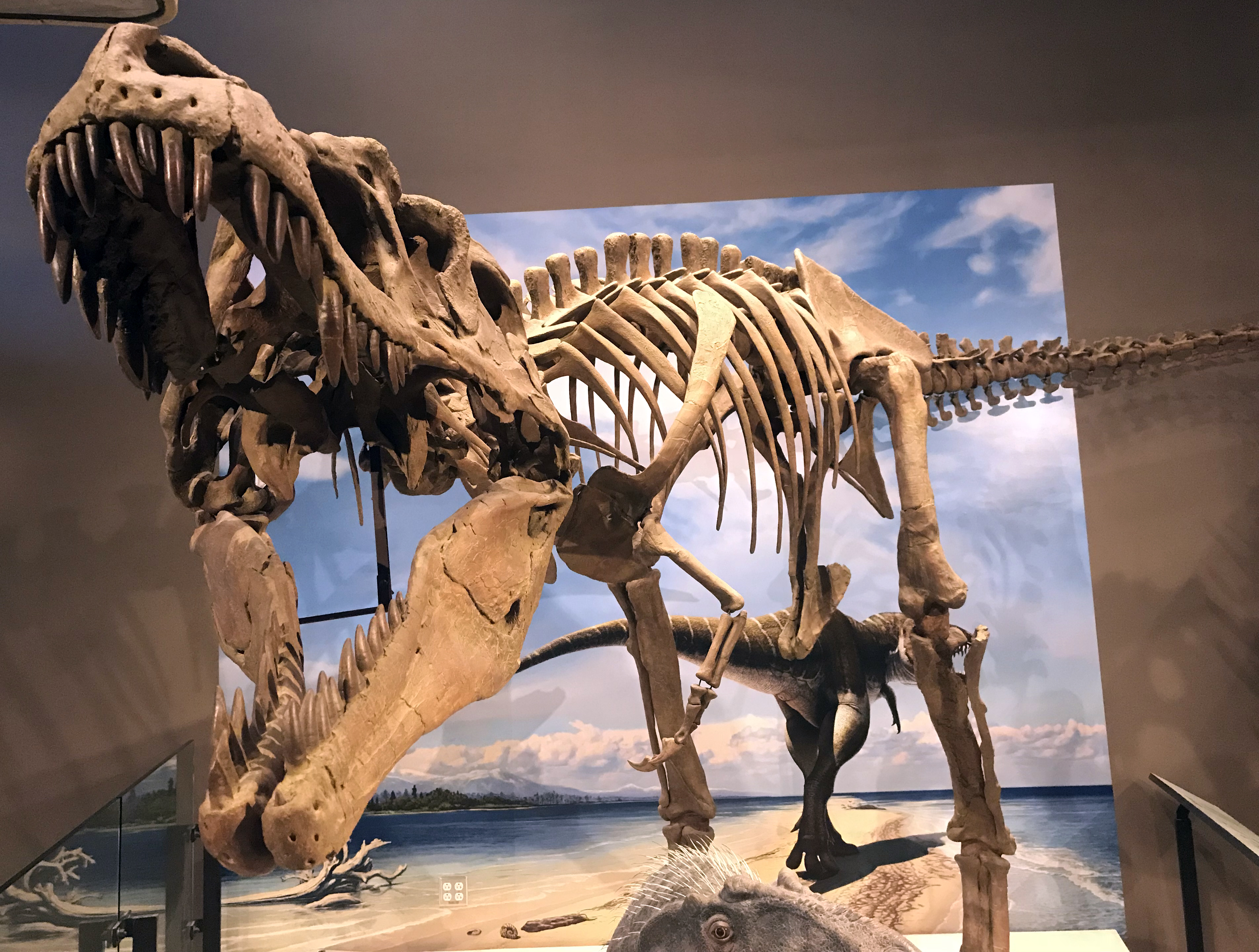 Lythronax reconstructed skeleton.